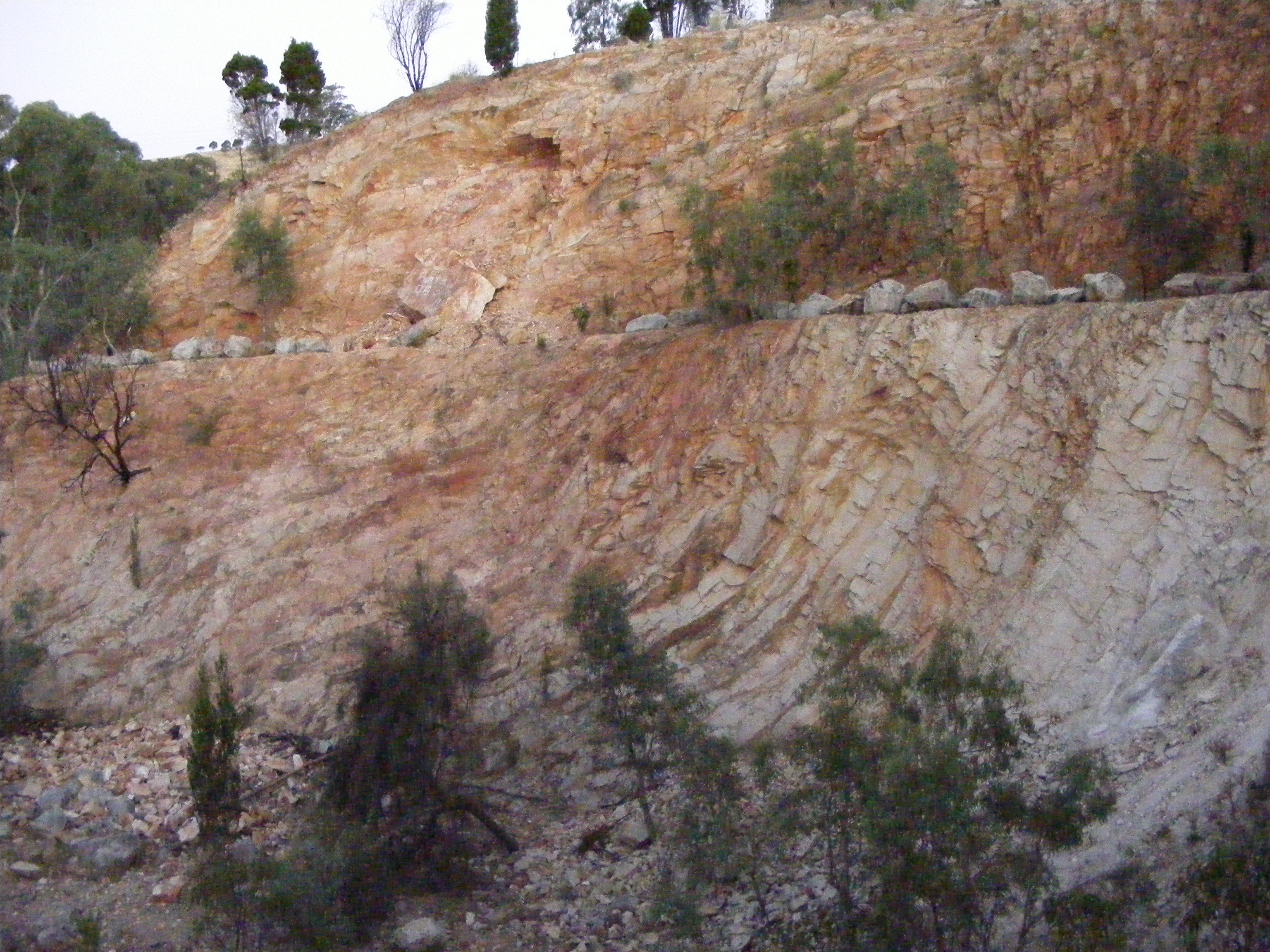 Klopper's Quarry at Anstey Hill recreation Park, Adelaide, South Australia. Used in 1980 and 1988 to stage plays as part of the Adelaide Festival of the Arts.